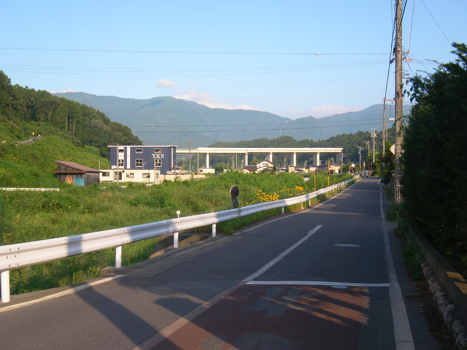 Nagano Prefectural Road 443, Uchinokawa - Ina Line. Ina, Nagano prefecture, Japan. Westward From the Arai-bashi (Arai Bridge of Ozawa River) Crossroads. Long bridge is the Chūō Expressway.